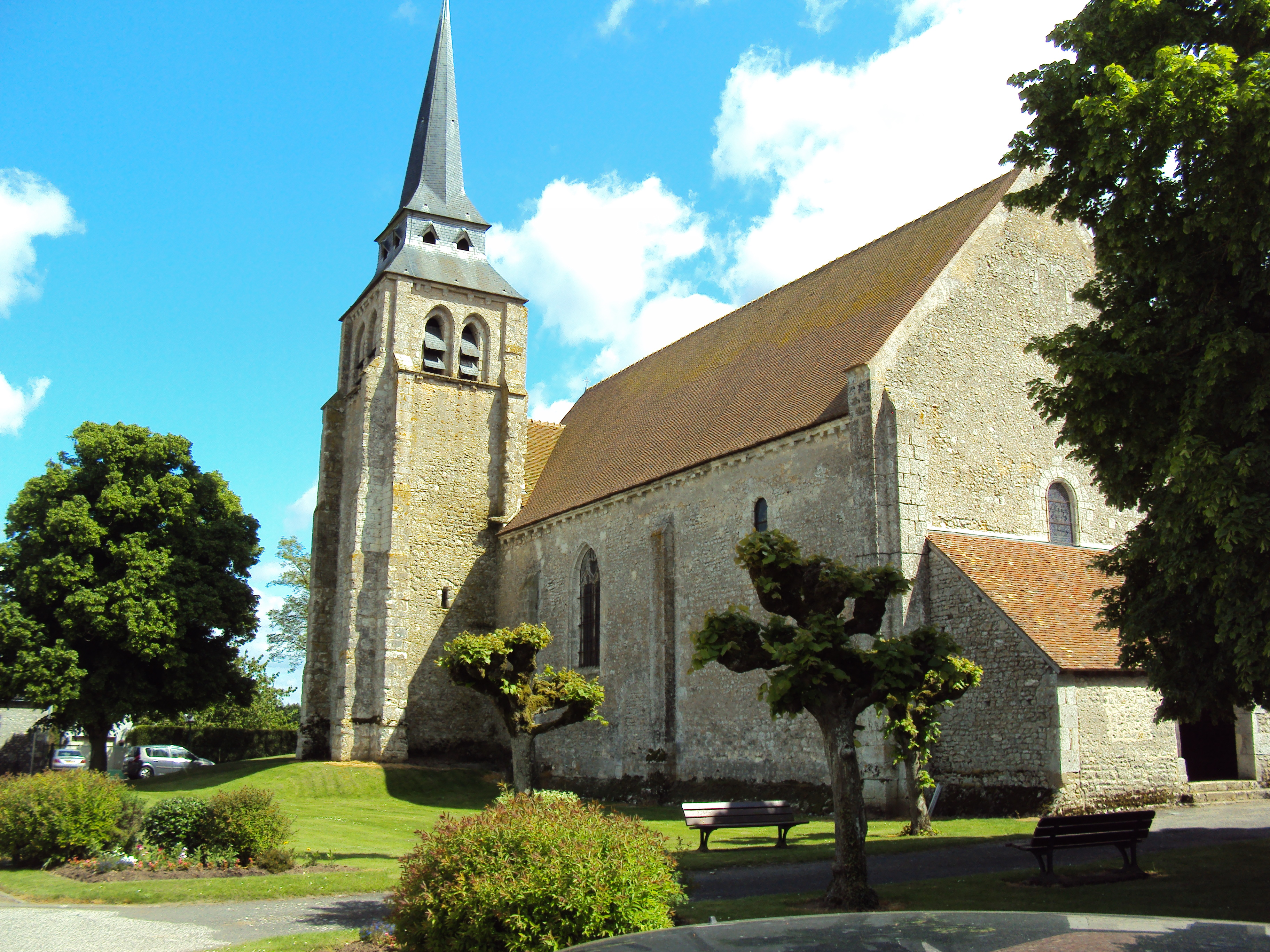 The church of Lutz-en-Dunois, Eure-et-Loir, France.